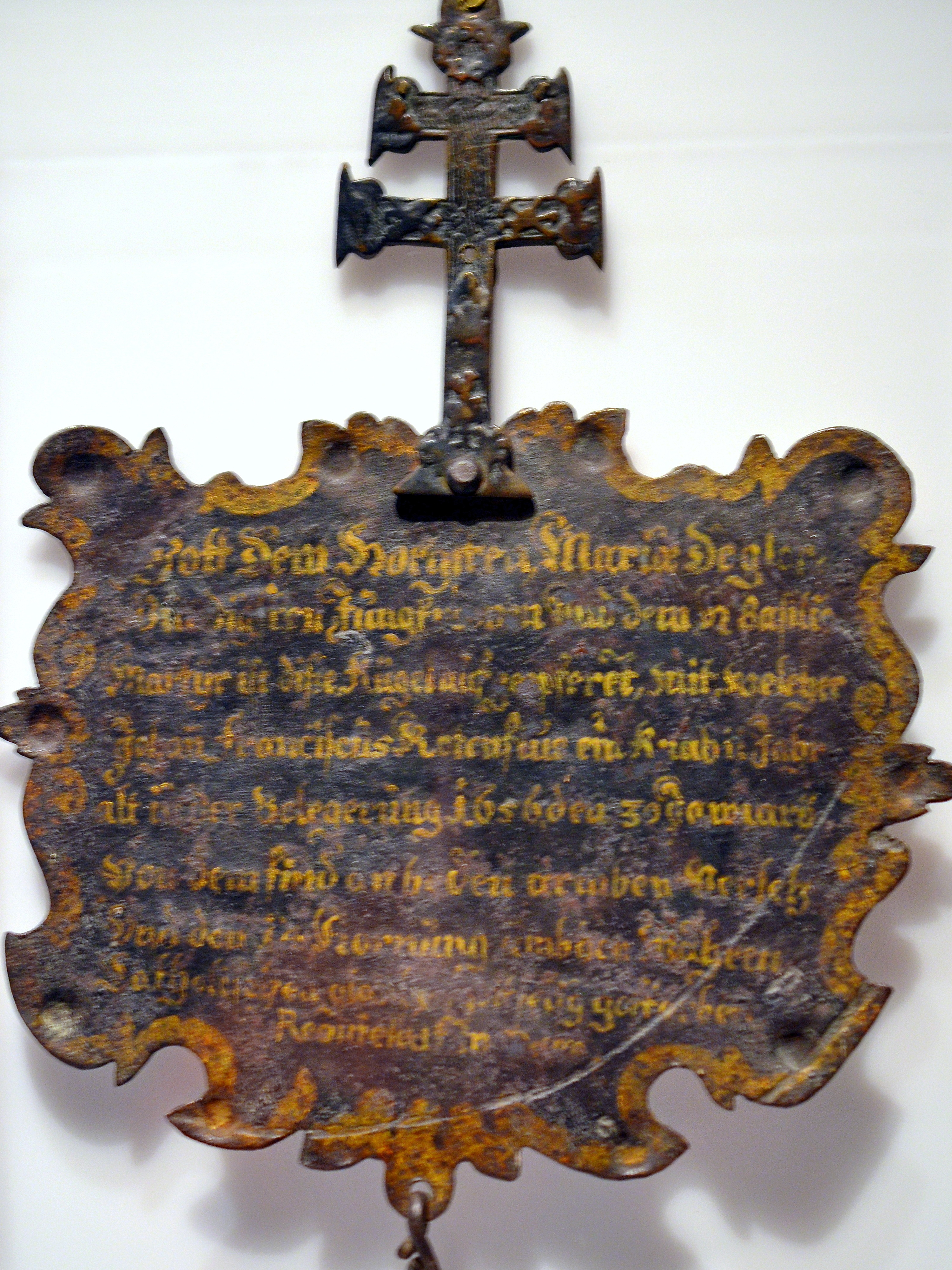 Collection of the Stadtmuseum in Rapperswil (Switzerland)